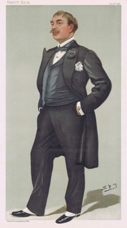 Caricature of M V Maurel. Caption read "A fine baritone".